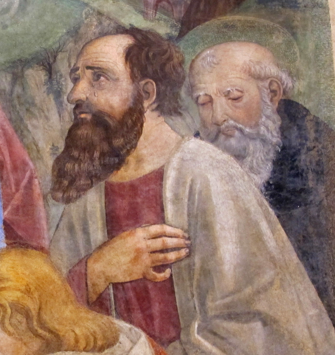 Ognissanti (Florence) - Interior